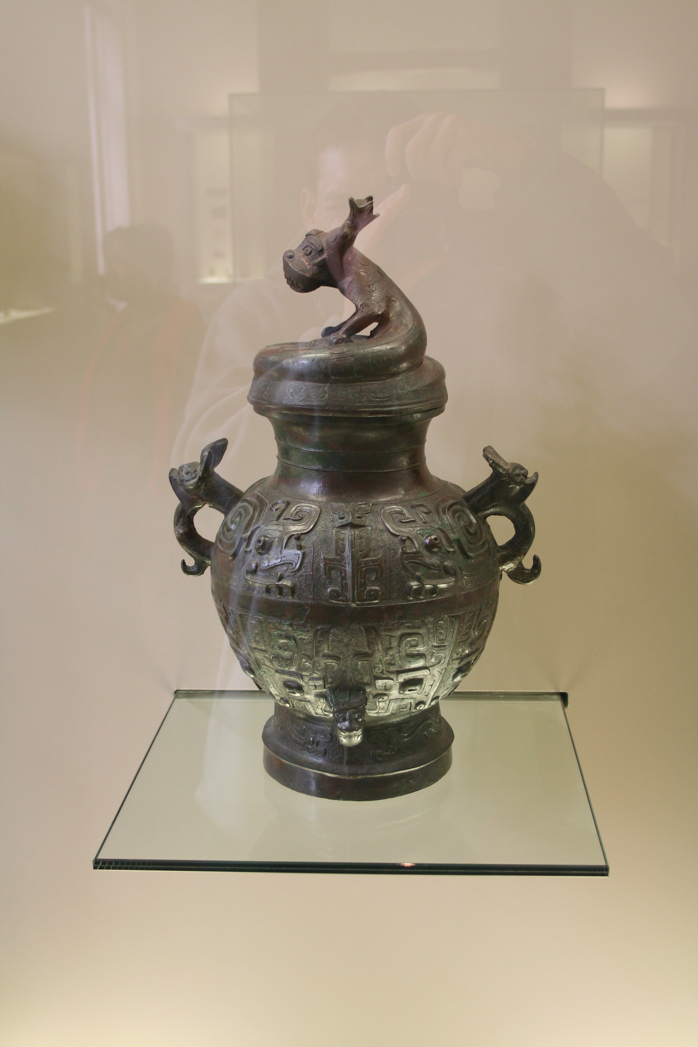 Vase « Lei » for liquids. Bronze. Western Zhou Dynasty (around 1050 – 771 BC). Late 11th – Early 10th Century BC. Cernuschi Museum, Paris, France.